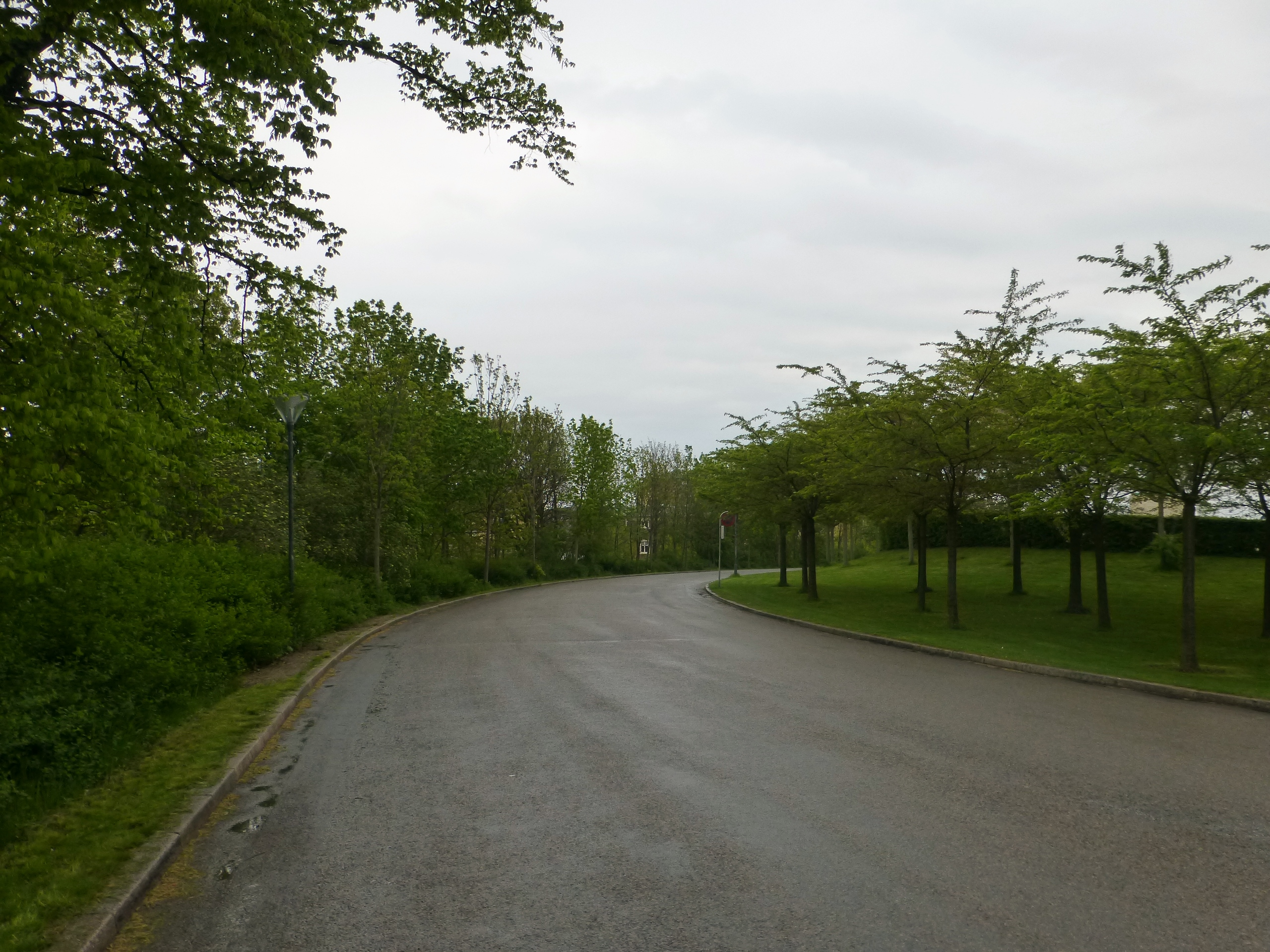 The street Langelinie Alle in Østerbro in Copenhagen.